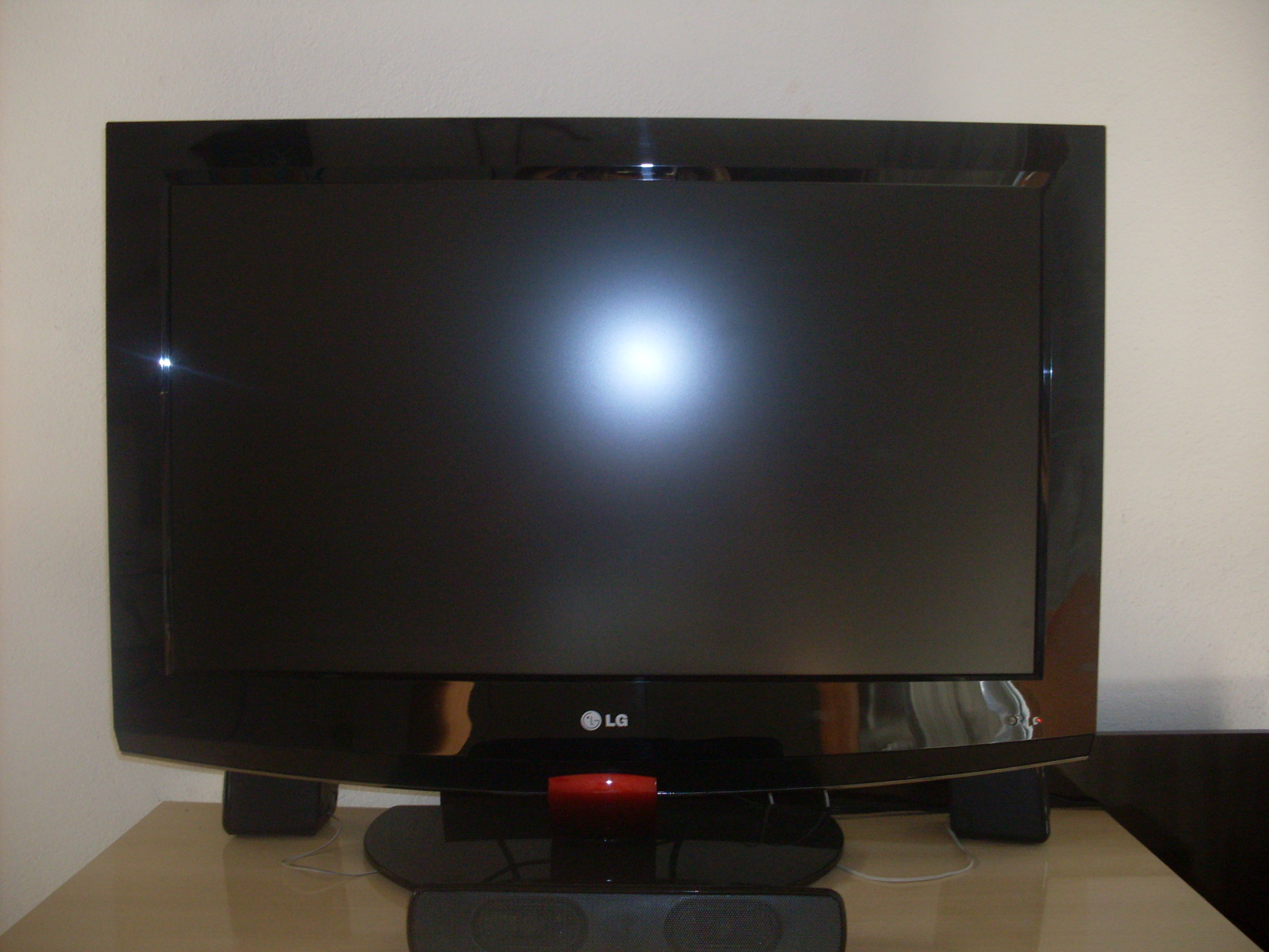 LG Television, Time Machine 2